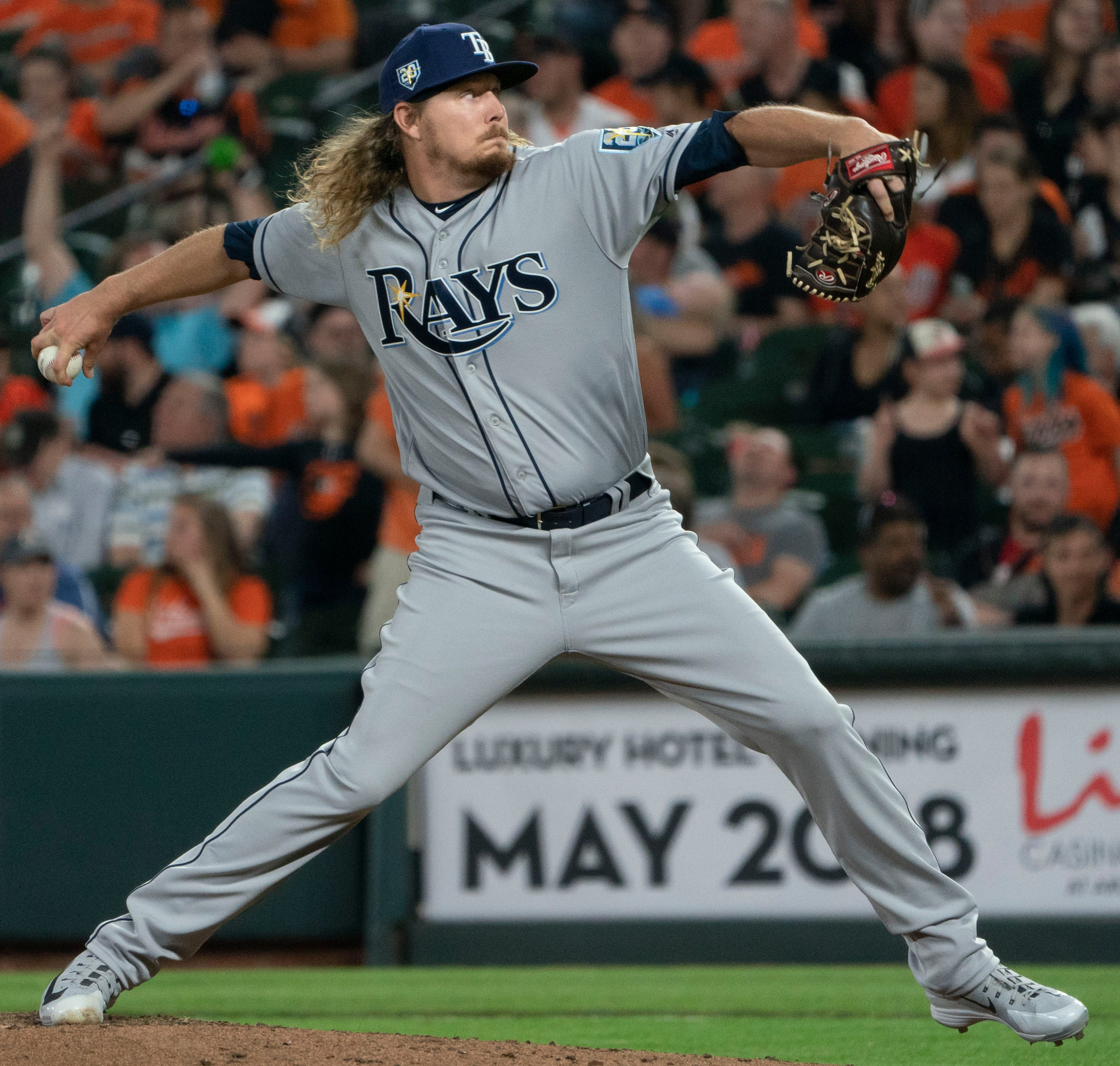 Rays at Orioles 5/11/18